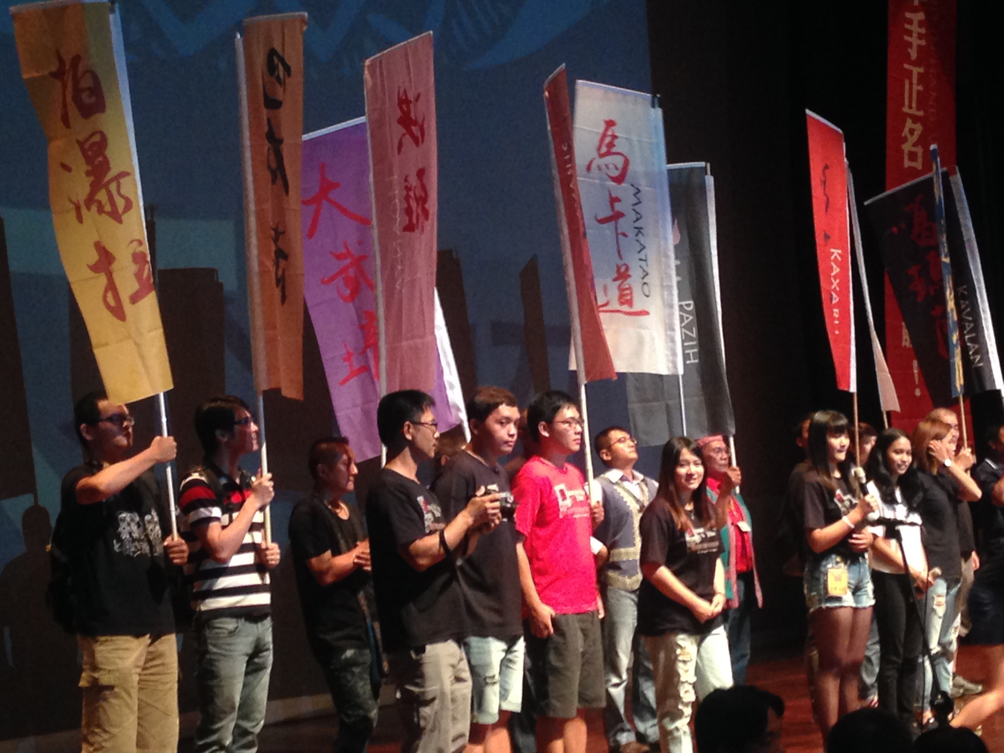 2015 Plain Indigenous Peoples for Recognition Summit